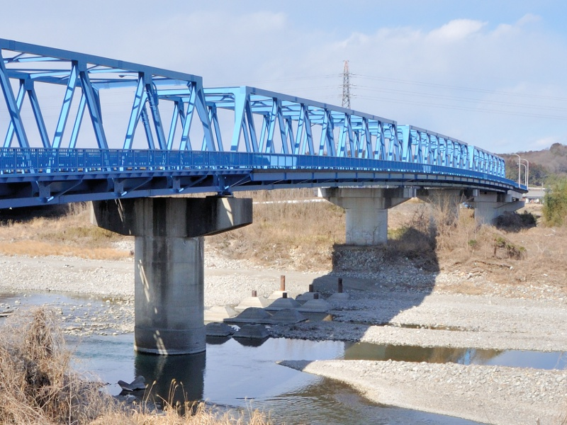 Honjo Bridge and Omoi River